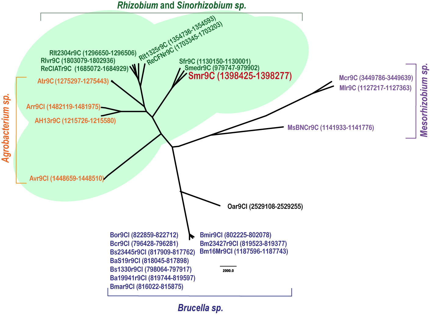 9C tree